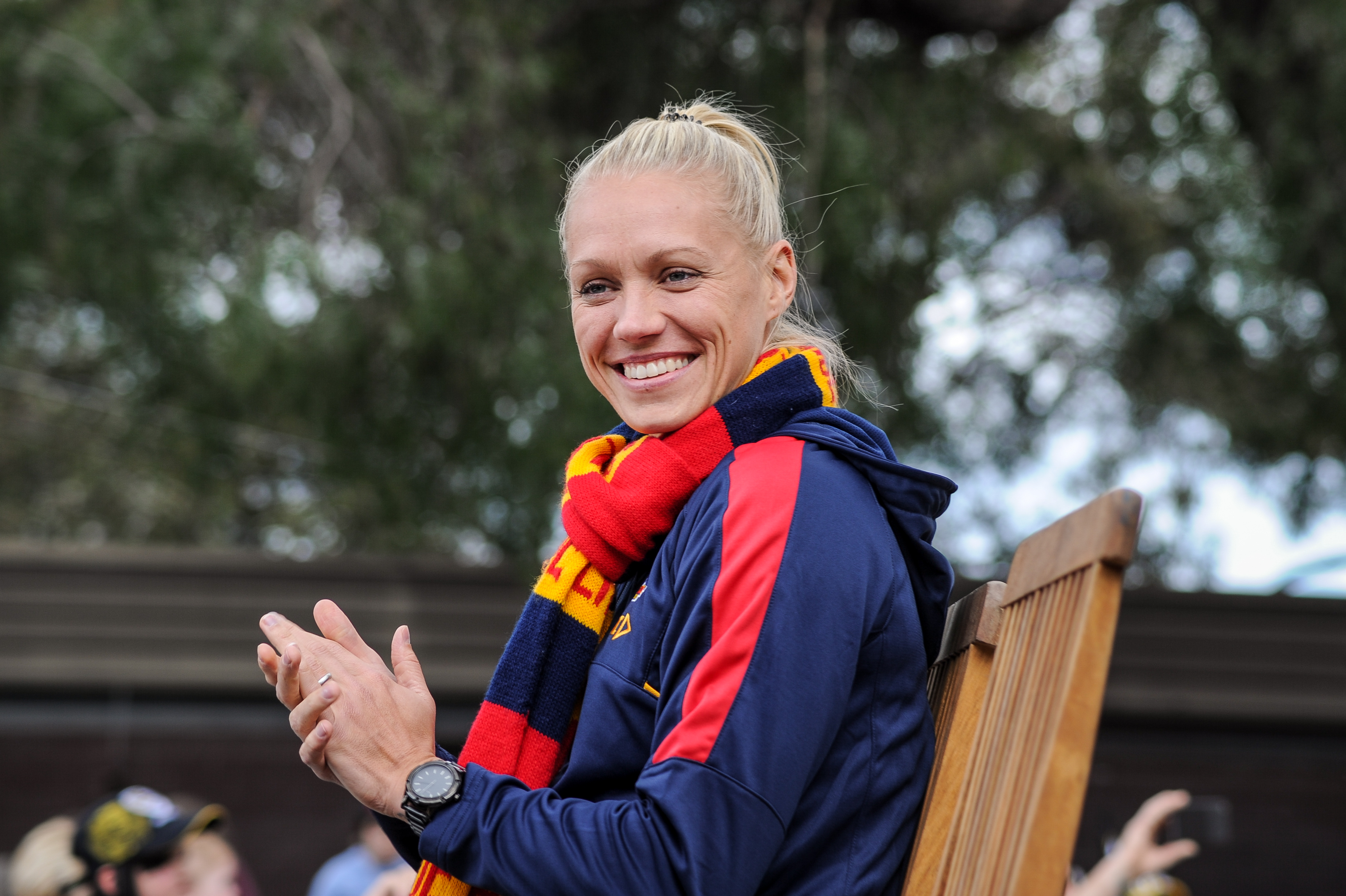 Erin Phillips at the 2017 AFL Grand Final parade on 29 September 2017 in Melbourne, Victoria.